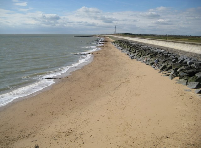 Holland-on-Sea: Beach at Sandy Point The boundary between Holland-on-Sea and Frinton-on-Sea lies just beyond the first groyne so this is the very north-eastern extremity of Holland-on-Sea. The tower on the horizon is the communications mast in TM2117.